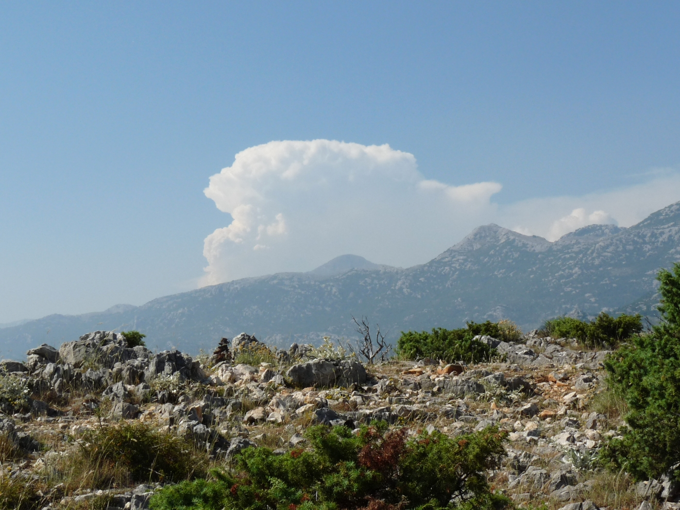 Velebit mountain range in Croatia, with cumulonimbus cloud forming.